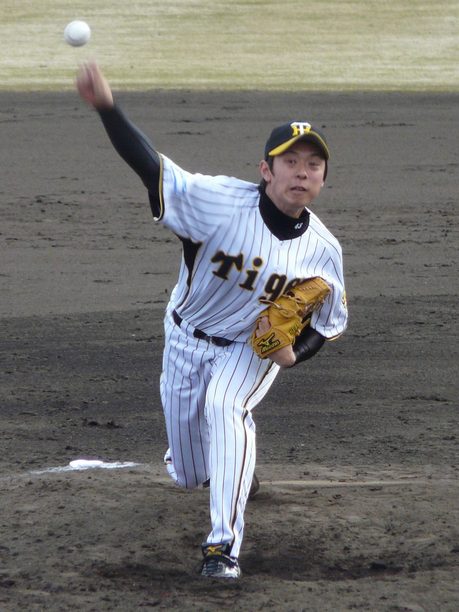 Hanshin Tigers/Ken Nishimura